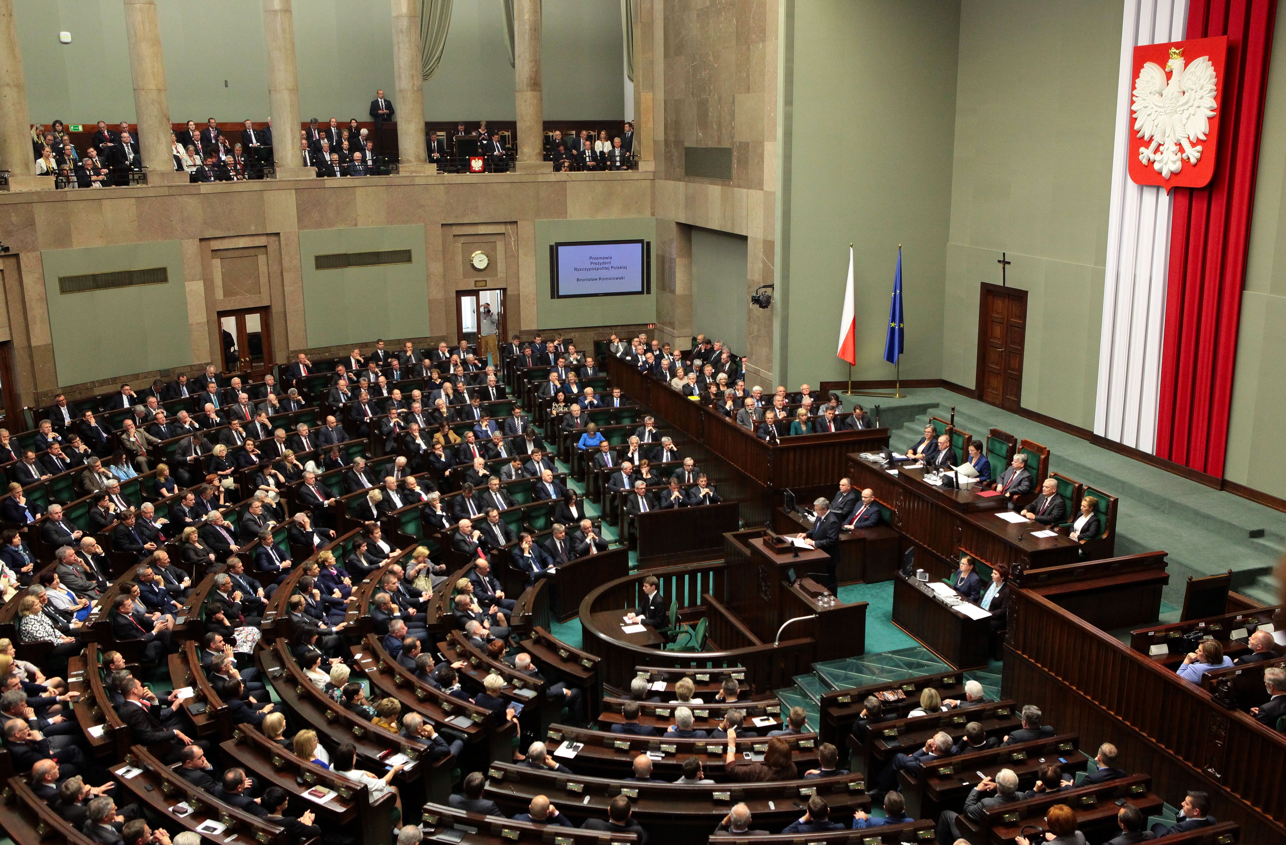 A National Assembly sitting on June 4th 2014